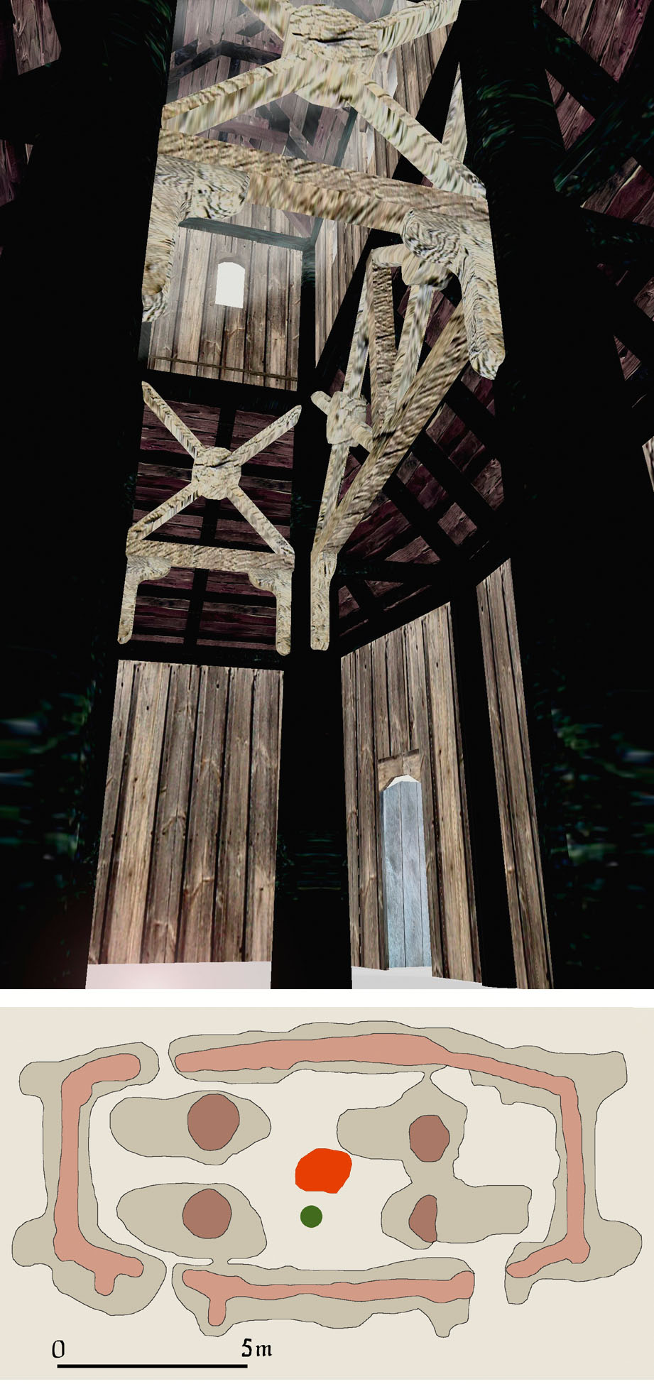 The pagan tempel of Uppåkra in the south of Sweden. Reconstruction.